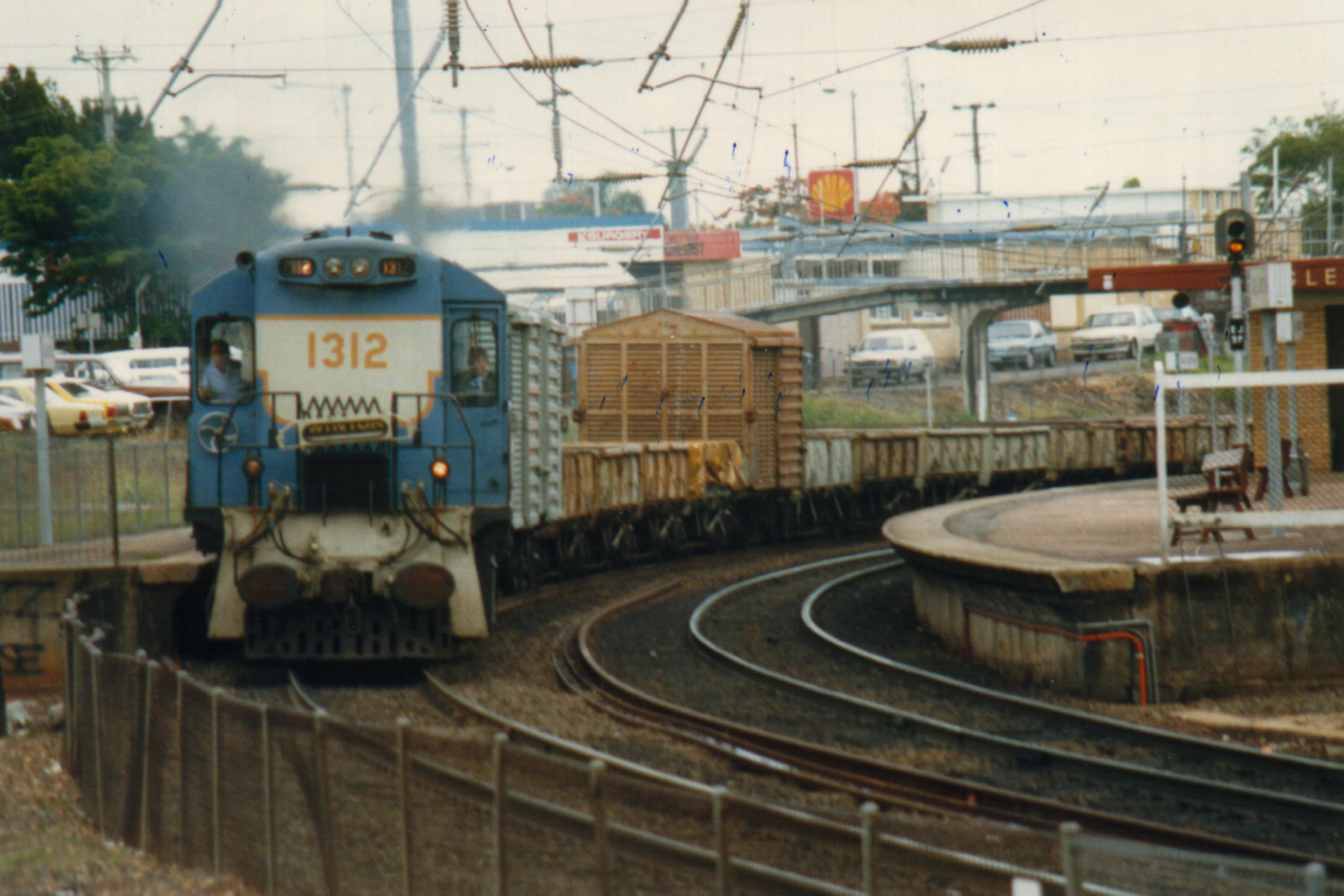 QR DEL 1312 heads an 'up' mixed goods train through Eagle Junction station on what was the (then) Northern Relief line, on 2 December 1986. Photo by “Luke Cossins”.